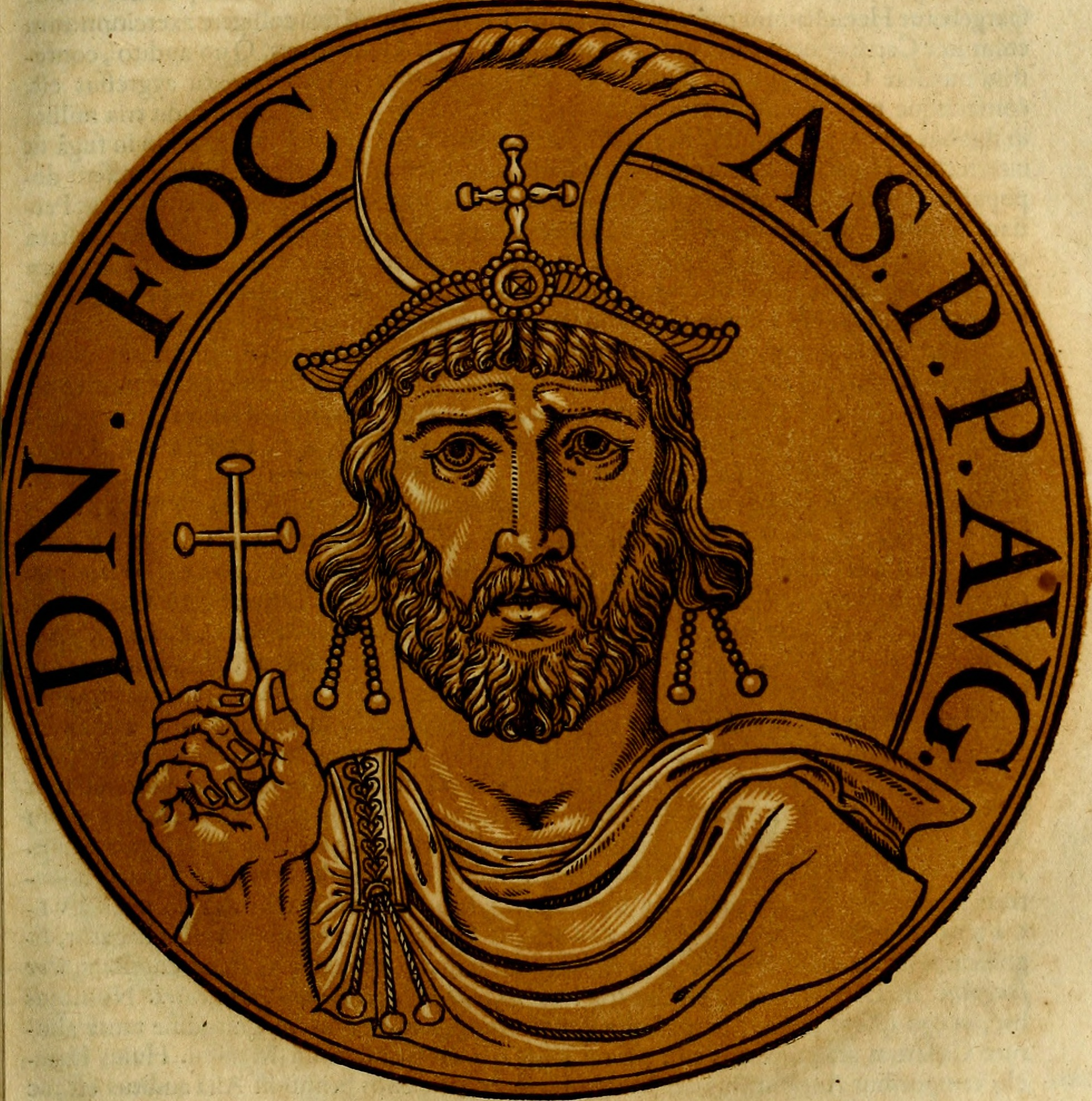 Title: Icones imperatorvm romanorvm, ex priscis numismatibus ad viuum delineatae, & breui narratione historicâ Year: 1645 (1640s) Authors: Goltzius, Hubert, 1526-1583 Gevaerts, Jean-Gaspard, 1593-1666 Rubens, Peter Paul, 1577-1640 Subjects: Emperors Emperors Numismatics, Roman Publisher: Antverpiae, Ex officina plantiniana Balthasaris Moreti Text Appearing Before Image: atteftante Plinio. Eius fomnolentiae ac focordias hie erat Focas; id-que adeo, vt foa fere omnia hoftibus diripienda permitteret: ac quemadmo-dum iam nullum Occidentale exftabat Imperium , ita etiam Orien tale pameinterierat. Res haec genero fuo Prifcomagis erat cordi, quam quifquam arbi-traretur. Significabat per litteras Heracliano Africa: Praefidi, vti filium Hera-cliummitteret,quicumipfobellum aduerfus Focam moueret; fieri alioquinhaudpoffe, quinnon Imperium modo, fednomenipfum Imperij foretinteri-turum. Cum i^itur Heraclius mamo cum exercitu veninct , Focam infeftoMarte deuicit, ipfumque milites captum Heraclio ac Prifco tradiderunt. HiImperatorem, inanibus pedibufque prarcifis, igne ad Taurum combuflferunt,atque in mare tandem proiecerunt. Praeterea & tota eius profapia radicitus ab-fumebatur. Atque ita quidem Focas fimili clade perfidia: foa: pcenas dedit,qua in Mauritium , eiufque coniugem ac liberos , vfus fuerat antea. 191 XCVL FACILIVS FORTVNA PARATVRQVAM CONSERVATVR.. Text Appearing After Image: Imperator Romanorum v 111, annis minime probandus,immani crudelitate laniatus eft.